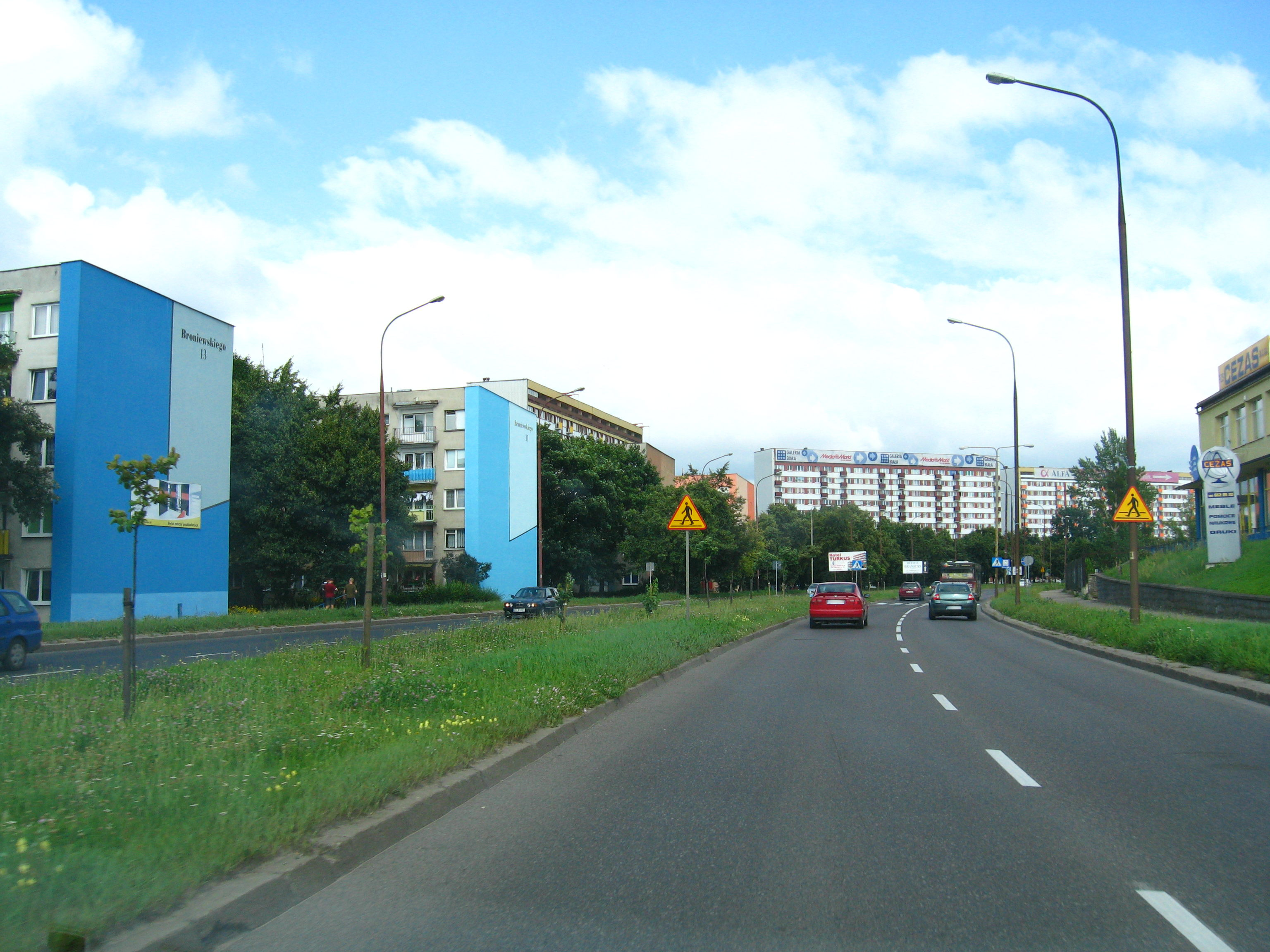 Białystok — Solidarity Avenue